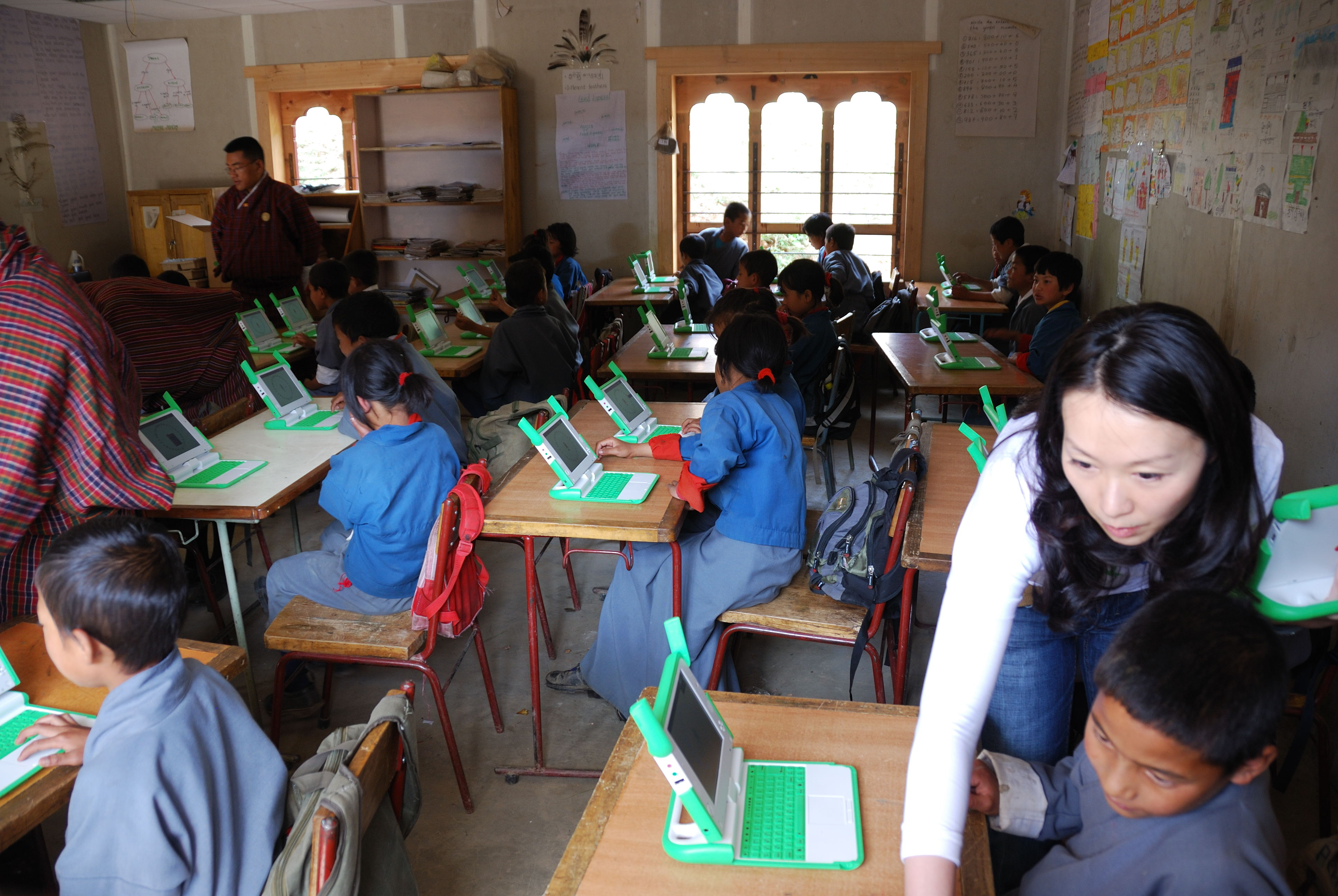 one laptop per child @ Bhutan photo by anthony